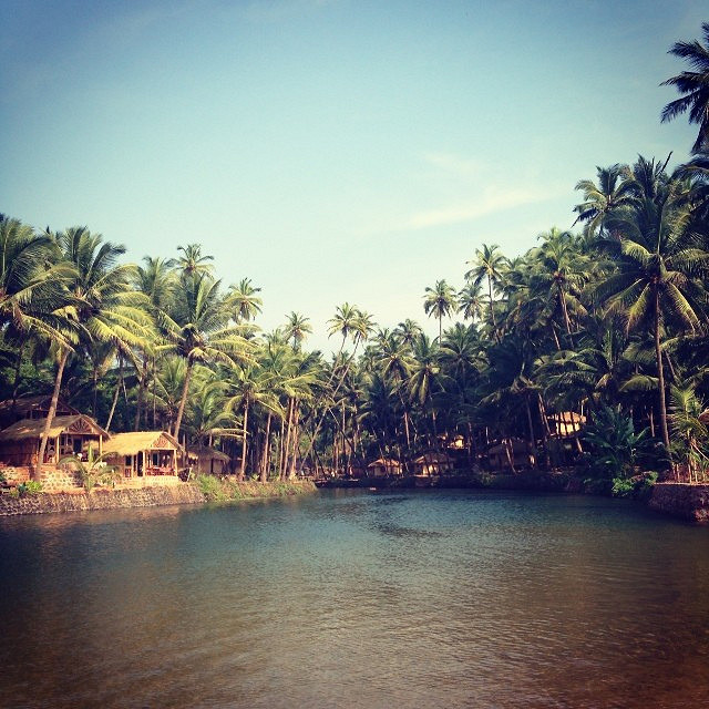 Blue Lagoon @ Cola Beach. -india -goa